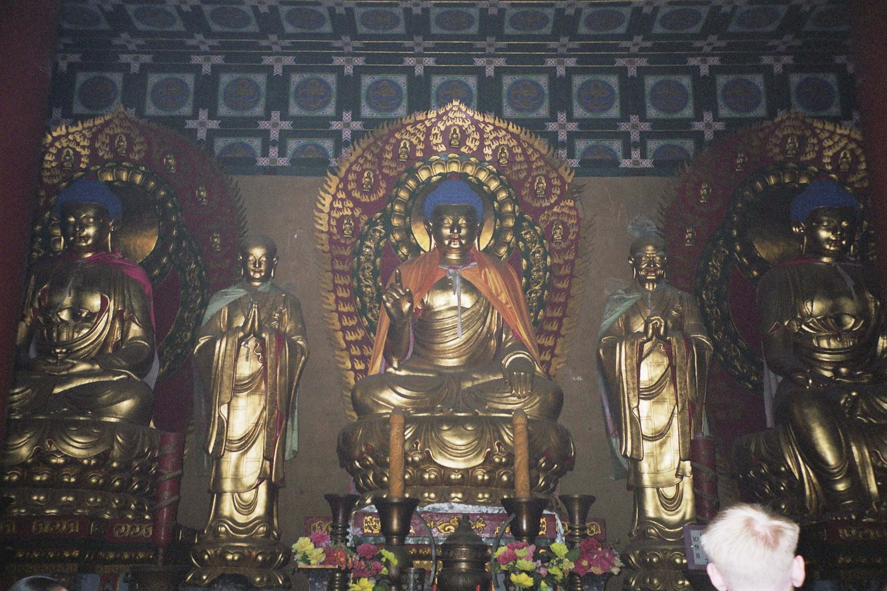 Shaolin Monastery, in september 2006.